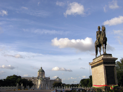 King Rama V Equestrian Monument, Dusit Palace, Bangkok, Thailand